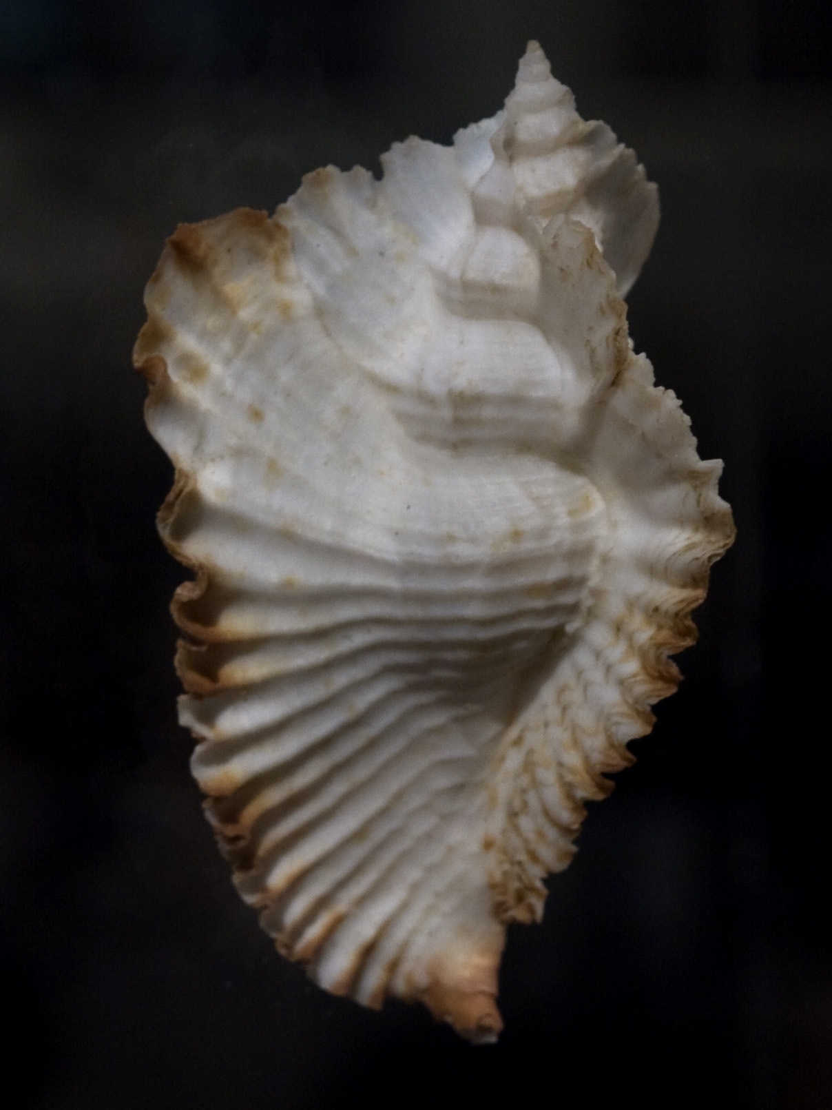 Timbellus bednalli (synonym :Pterynotus bednalli) (Bednall’s Murex) Northwest Australia HMNS 20711 Wikipedia Loves Art at the Houston Museum of Natural Science This photo of item # 20711 at the Houston Museum of Natural Science was contributed under the team name "Assignment_Houston_One" as part of the Wikipedia Loves Art project in February 2009. Houston Museum of Natural Science The original photograph on Flickr was taken by skarsol—please add a comment to the original Flickr page whenever a use has been made on Wikipedia or another project. Project galleries on Flickr: this institution, this team